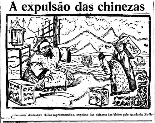 Caricature of the Lisbon Governor, Eusébio Leão, banishing the "Chinese of the Worms", in the A Capital newspaper, 25 November 1911.